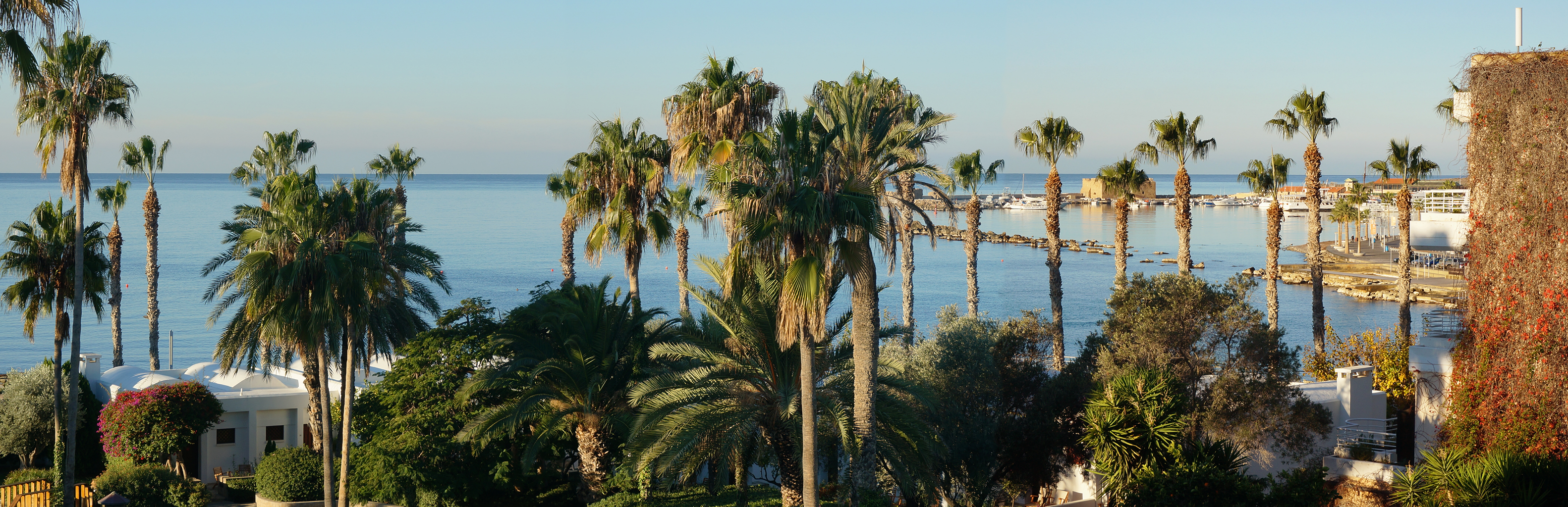 View of Paphos harbor, Cyprus.